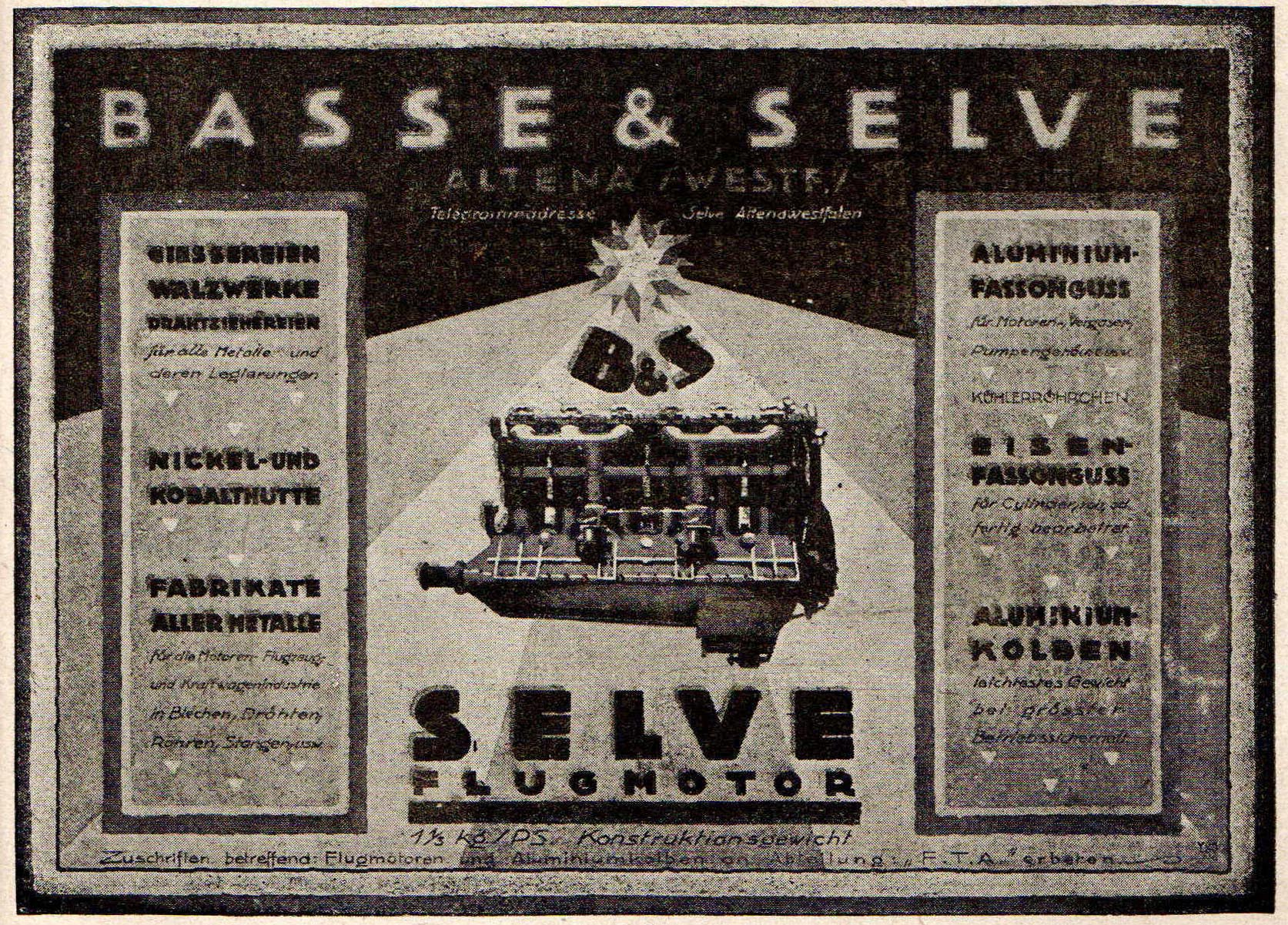 Advertisement for an aircraft engine Basse & Selve